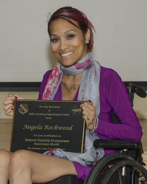 Andrew Skinner and Angela Rockwood were honored for being the guest speakers at this year's 412th Test Wing National Disability Employment Awareness Month luncheon Oct. 28. Both are survivors of accidents that left them quadriplegic. In spite of their injuries, both Rockwood and Skinner found strength in their situations. (U.S. Air Force photo by Rebecca Amber)